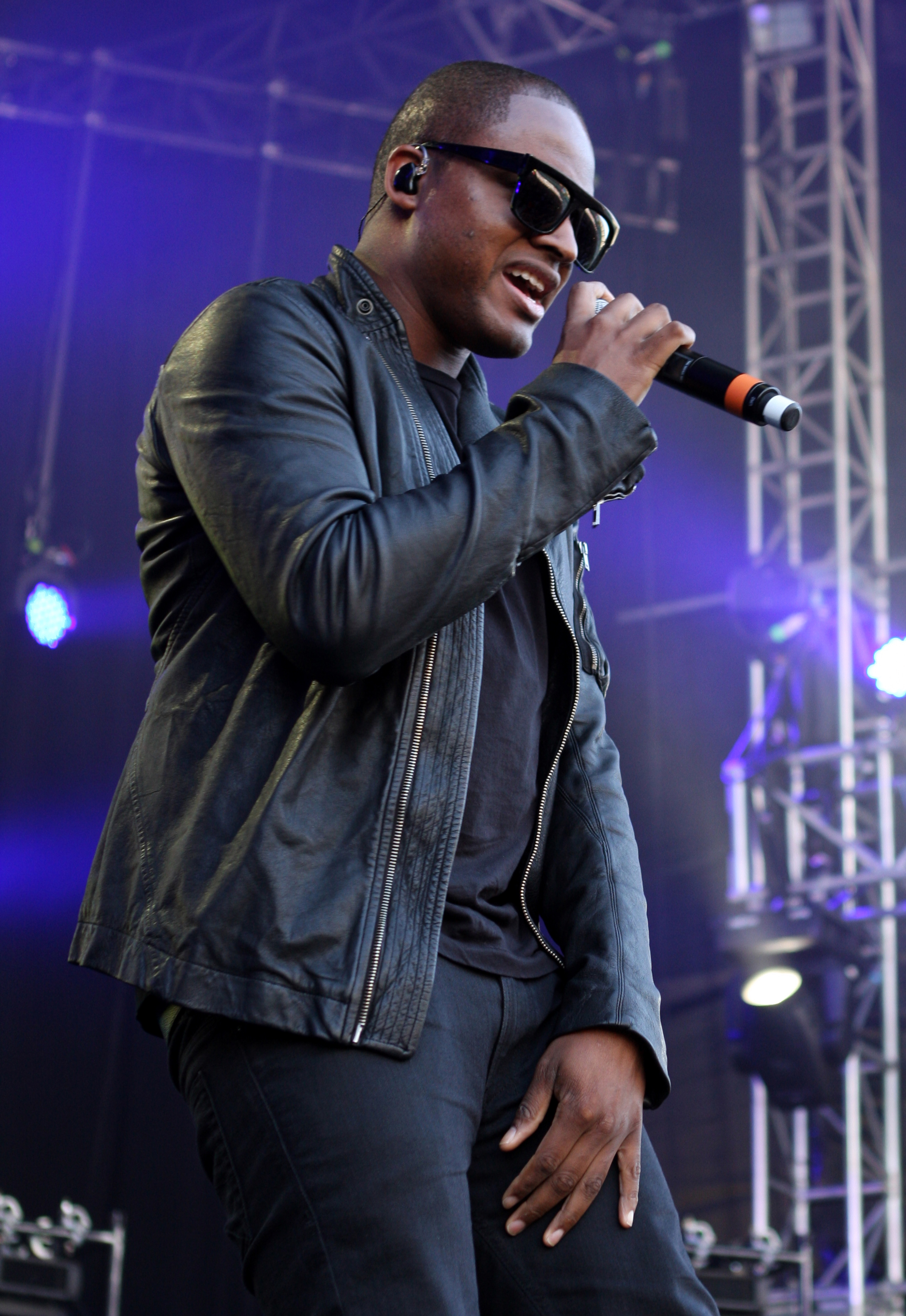 Taio Cruz performing at Supafest in Australia in April 2011.